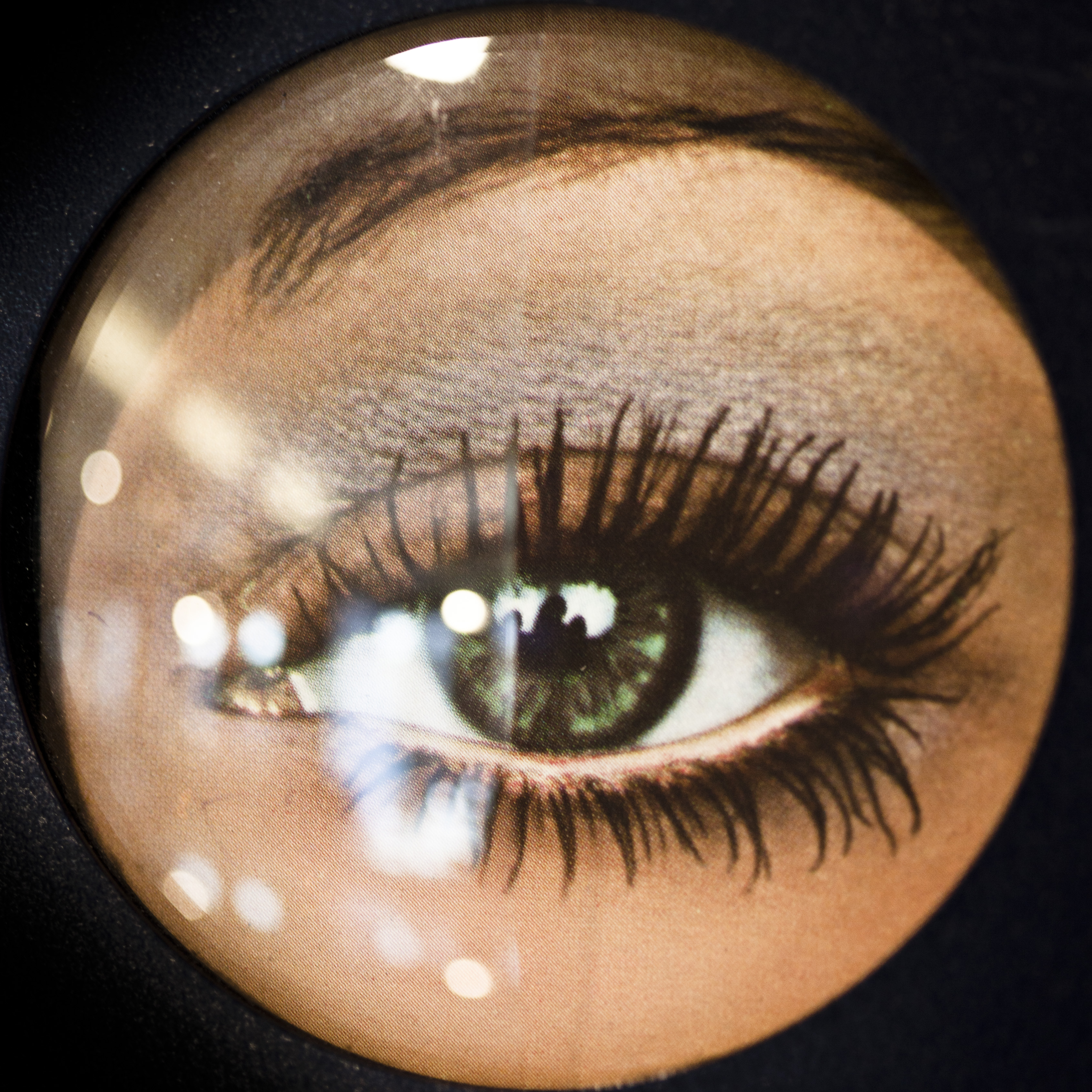 Comparison between a lens for glasses without anti-reflective coating (left) and a lens with anti-reflective coating (right). In this case the performance of the anti-reflective coating (by Rodenstock) is so good that the right half looks as if there is no glass at all.